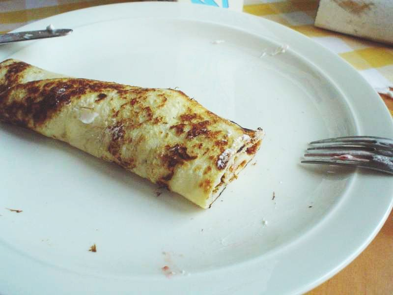 Crêpe rolled up